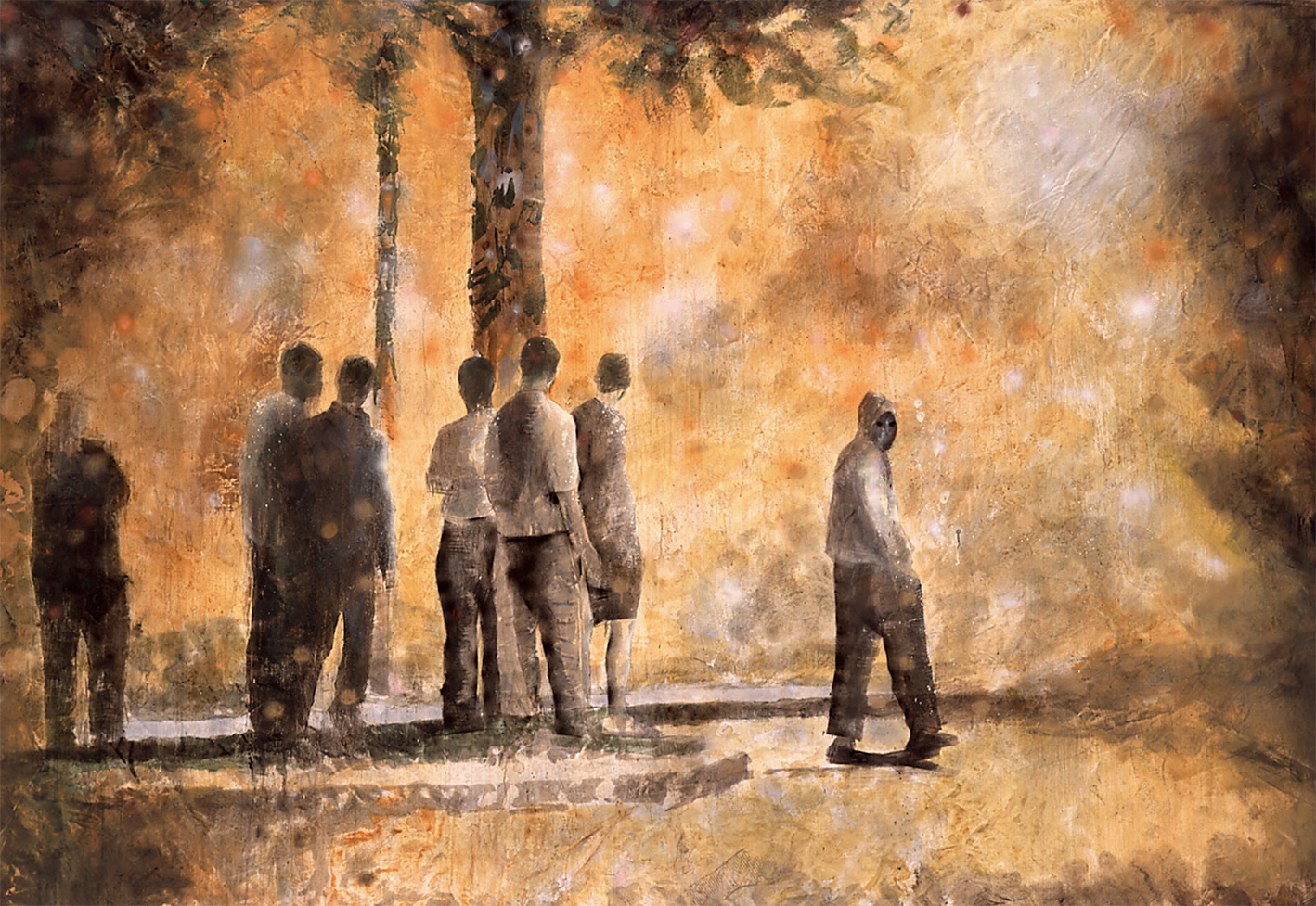 rebels, oil on canvas 200 x 290 cm, 2007